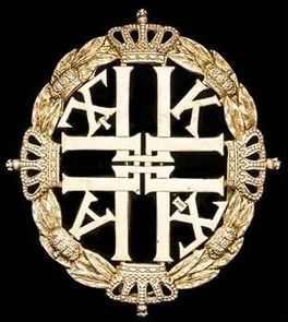 Gold Commemorative badge for the Centenary of the Royal House Greece for Gentlemen